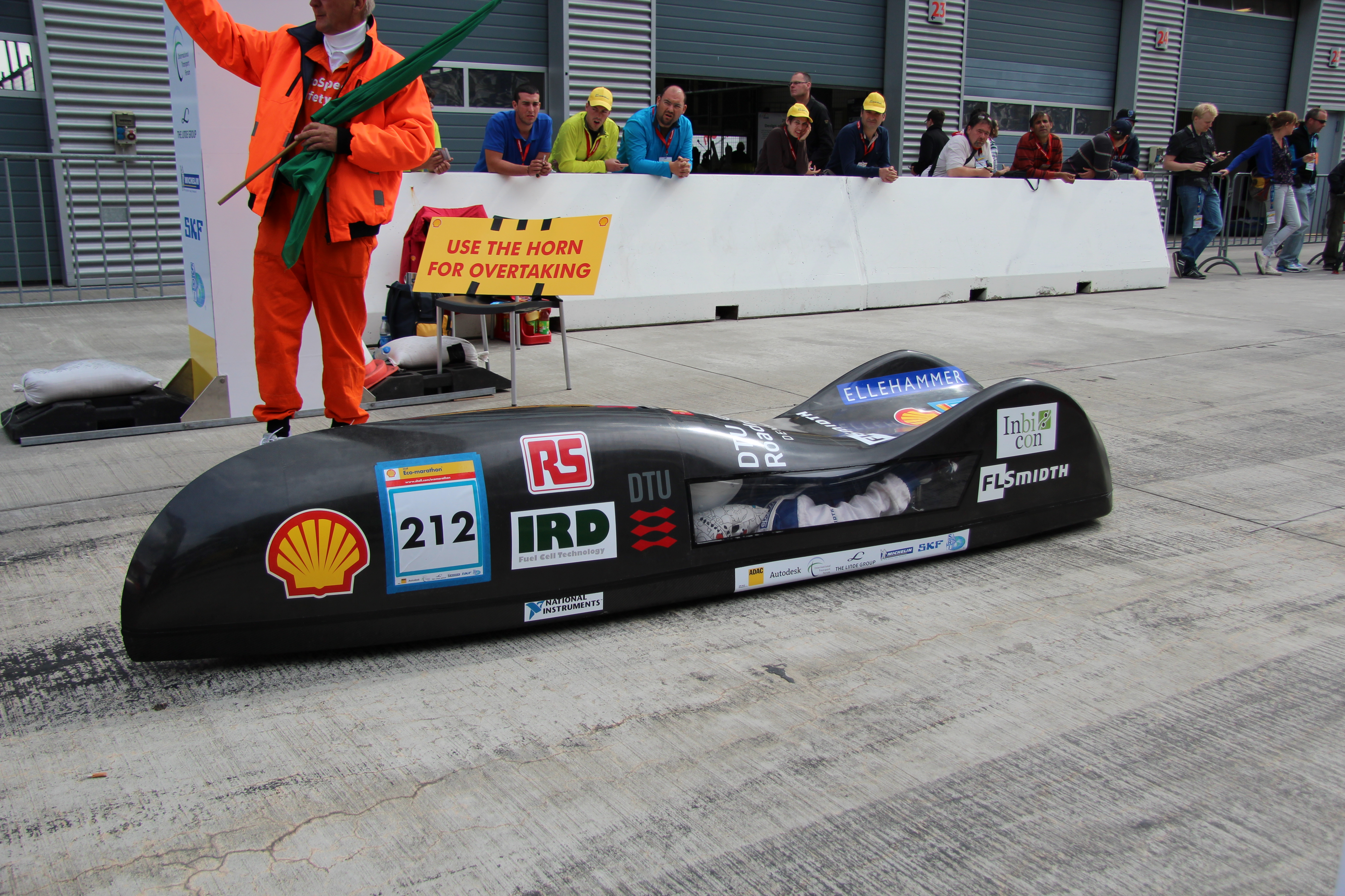 DTU Innovator at race start during the Shell Eco Marathon 2011